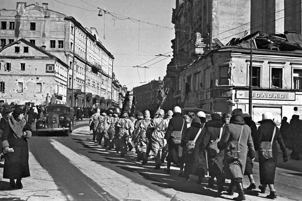 “Sanitary detachment in the Moscow street, 1941”. Sanitary detachment in the streets of Moscow.